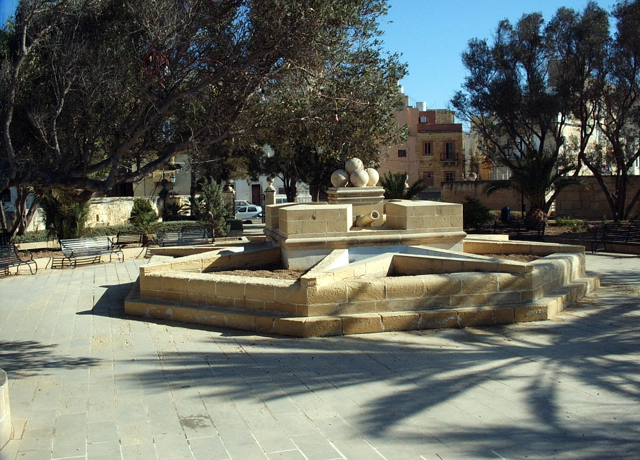 Author: Ramon Mangion